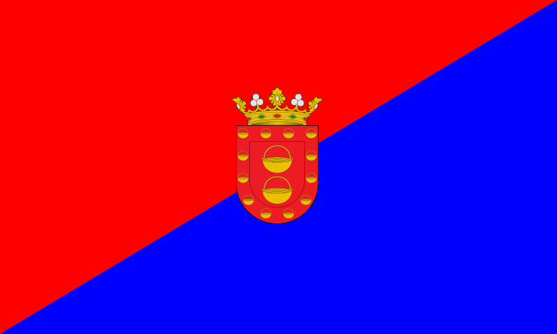 Flag of Lanzarote, Spain with coat of arms Vectorized from: Image: Flag of Lanzarote.svg and Image:Escudo de Lanzarote.svg Source